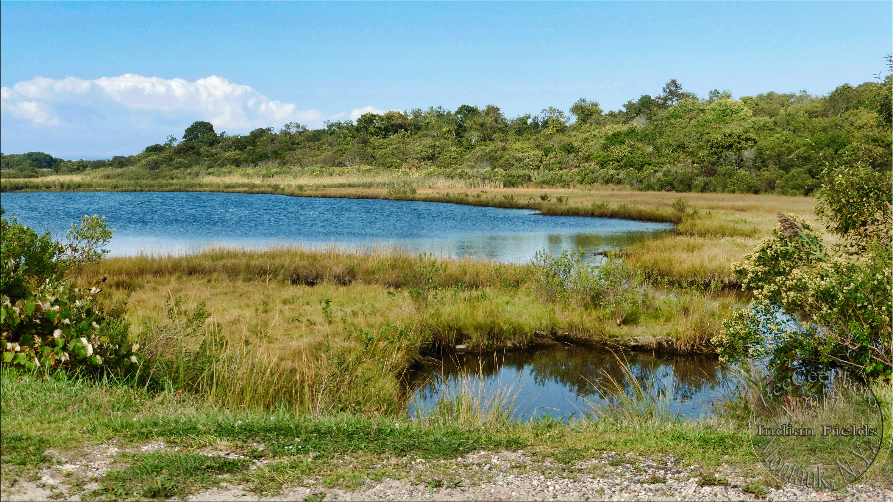 Eastern end of the Paumonok Trail, Big Reed Nature Trail by Little Reed pond in Indian Fields